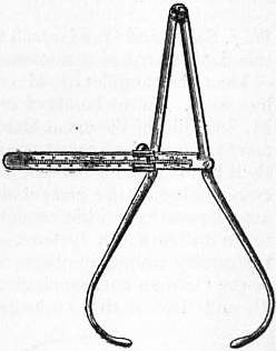 EB1911 Craniometry - Fig. 5.—Callipers used in Craniometry